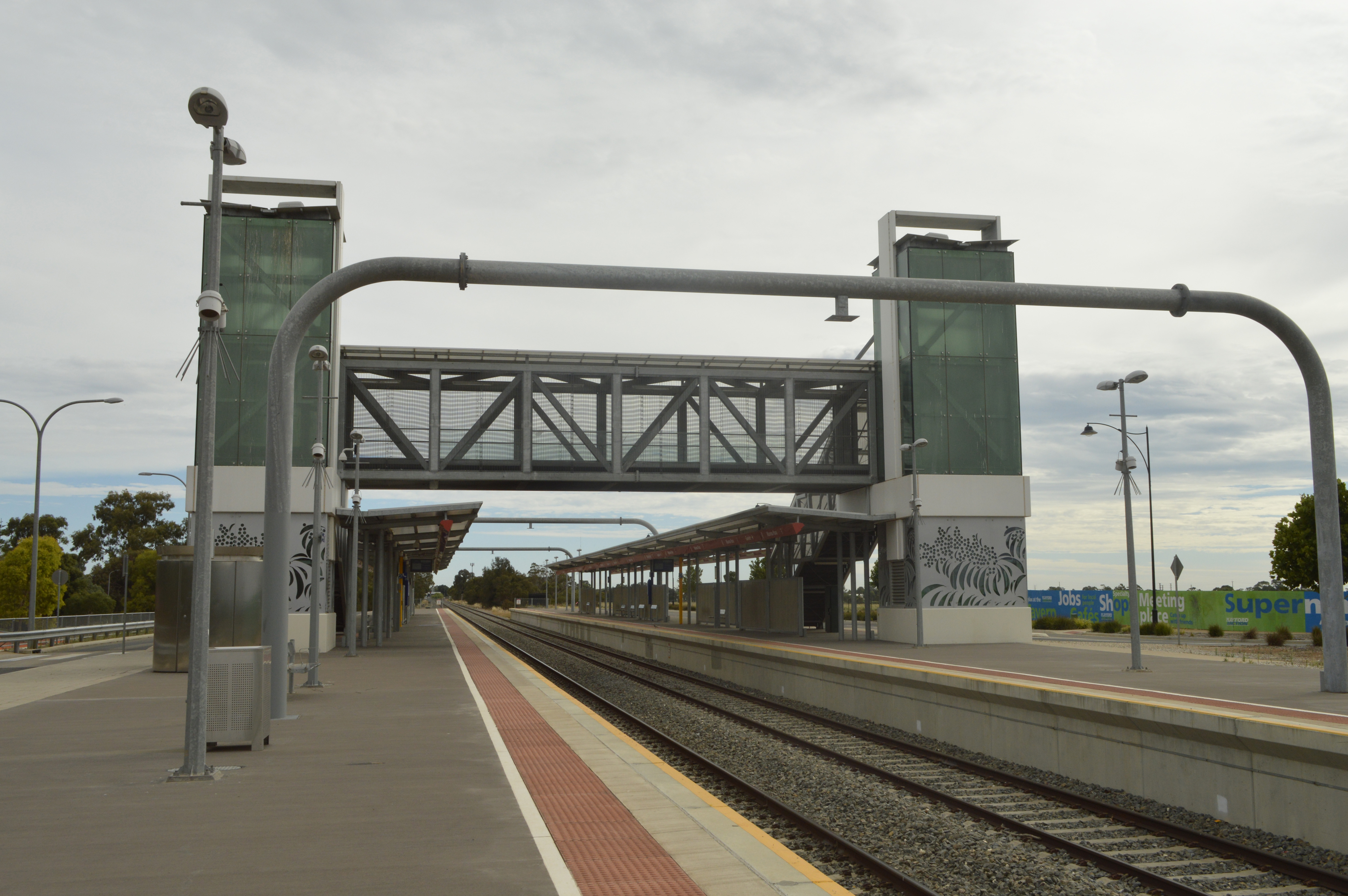 Munno Para station in January 2018 after being rebuilt.